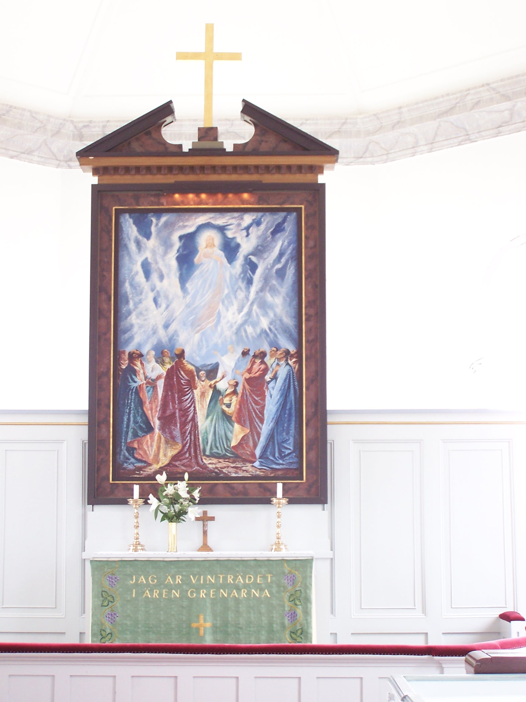 Altar in Dagstorp church.